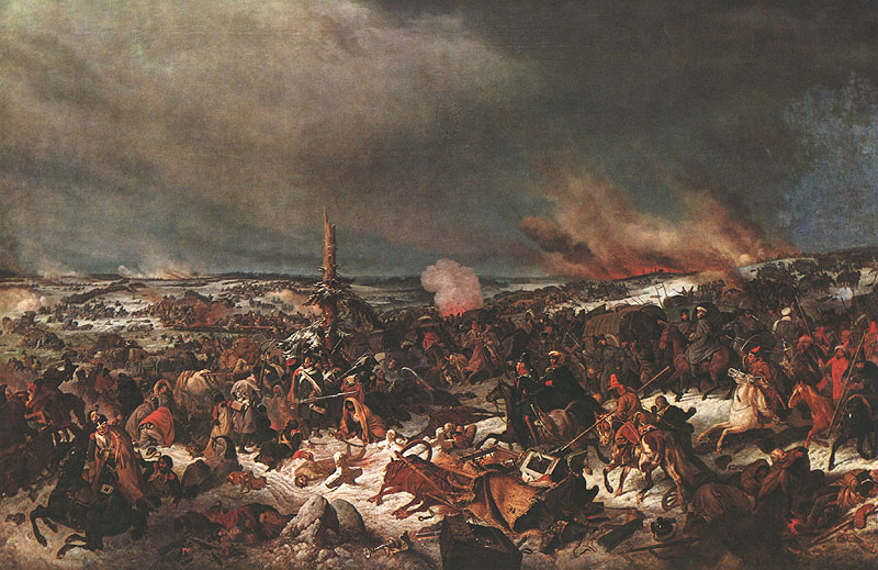 The remains of Napoleons 'Grande Armee' do battle with the armies of Russian Czar Alexander I, at the Berezina river. The French managed to cross the river, but incurred heavy casualties. It was the last battle of Napoleons failed attempt to invade the Russian Empire.